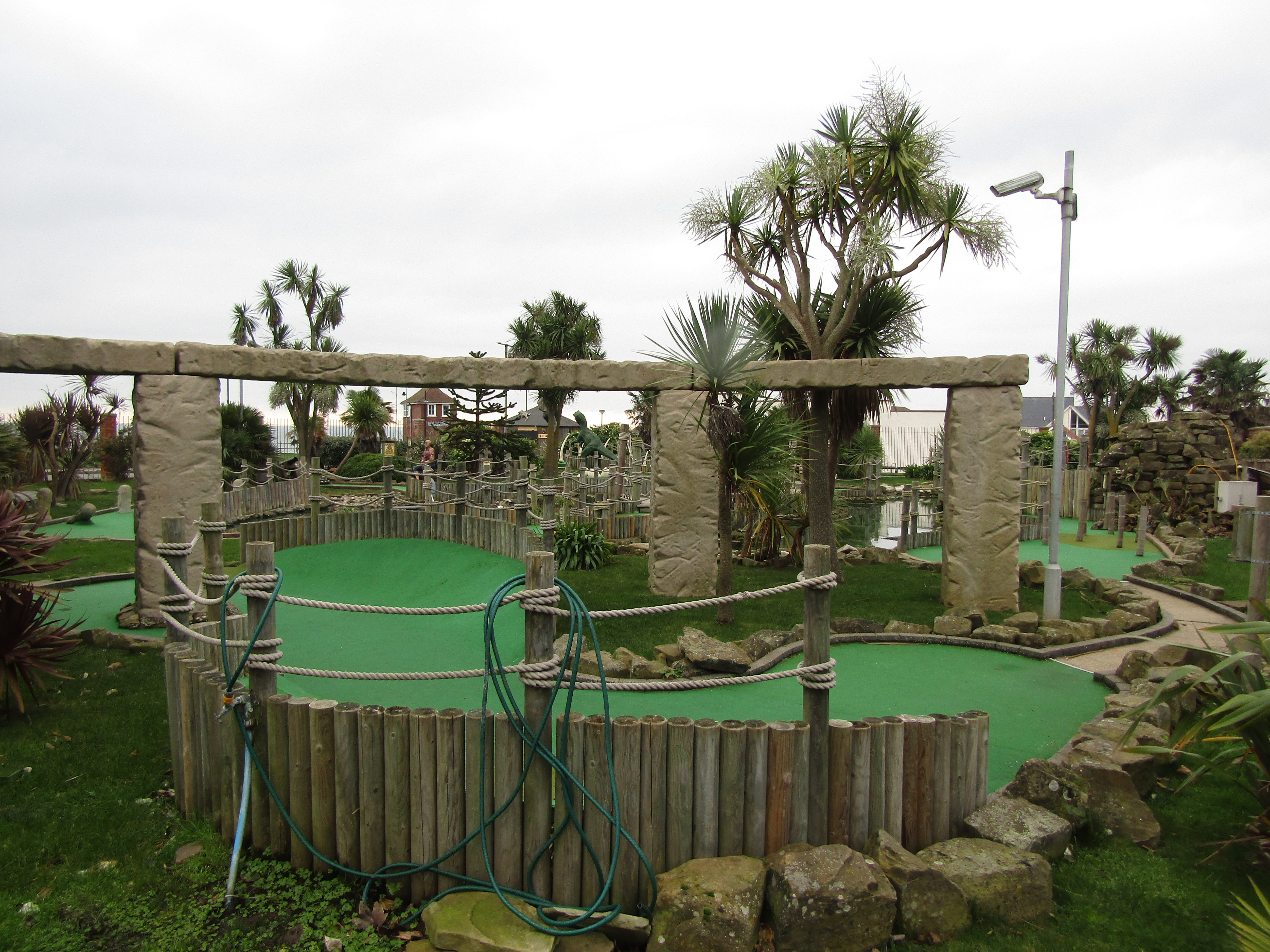 The Adventure Island Crazy Golf attraction is located on Beach Road in the village of Mundesley, Norfolk, United Kingdom.